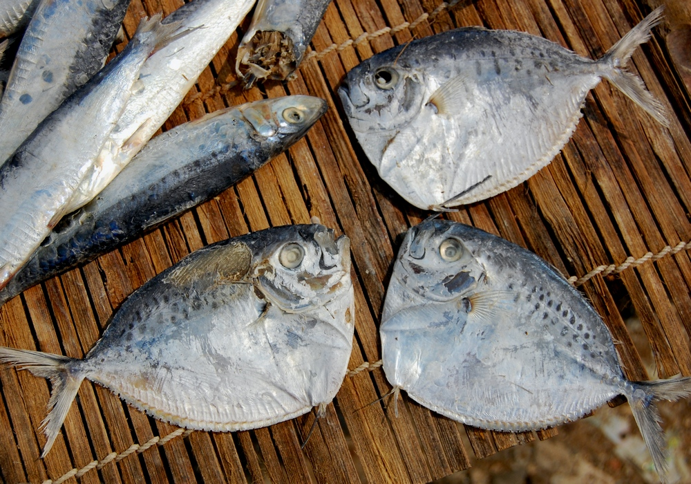 Salted moonfish, Mene maculata, sundrying at Muara Angke, Jakarta.